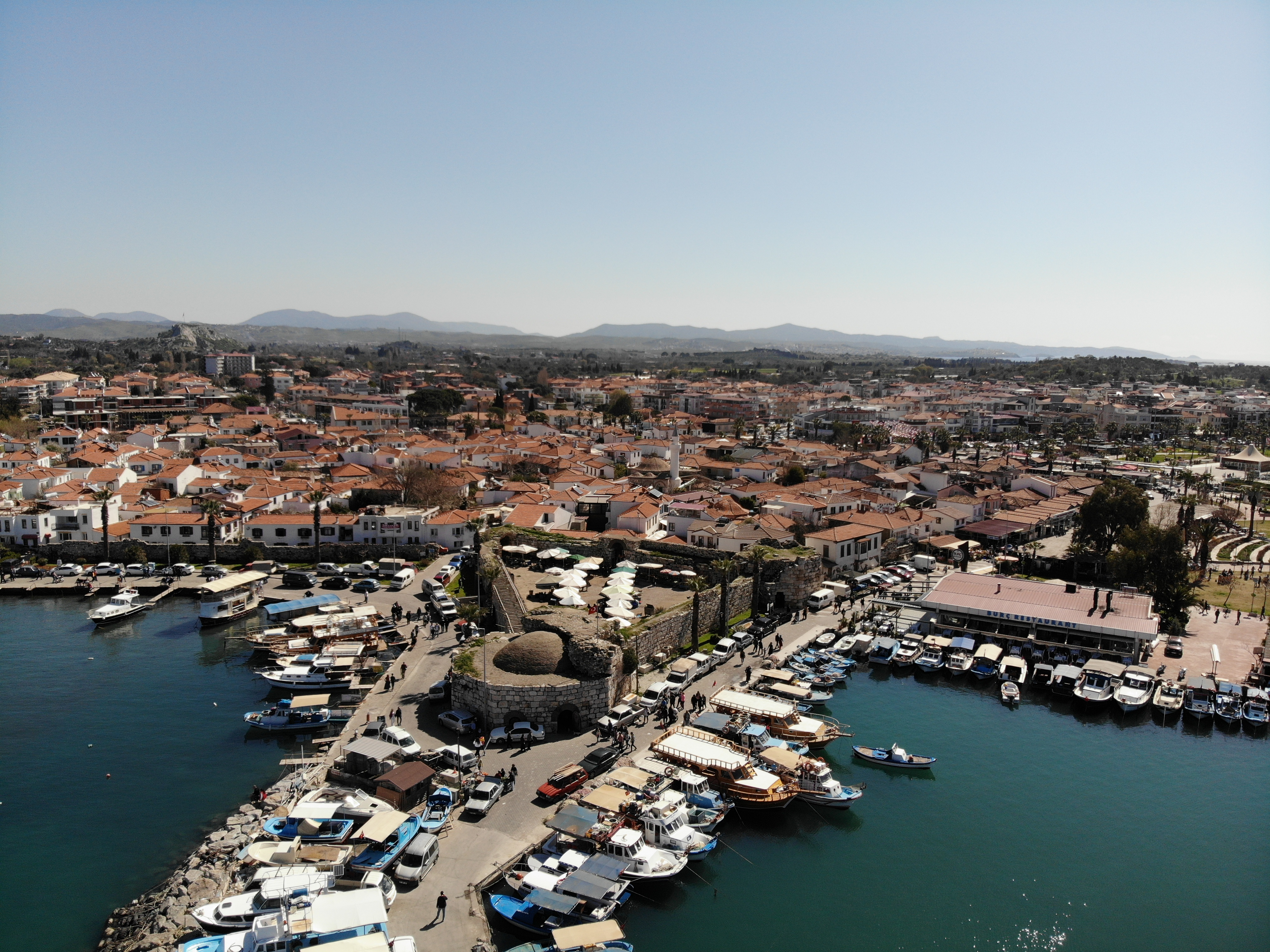 Aerial view of Sığacık Castle in Seferihisar, İzmir, Turkey.